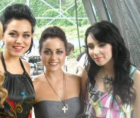 Everlife in 2010